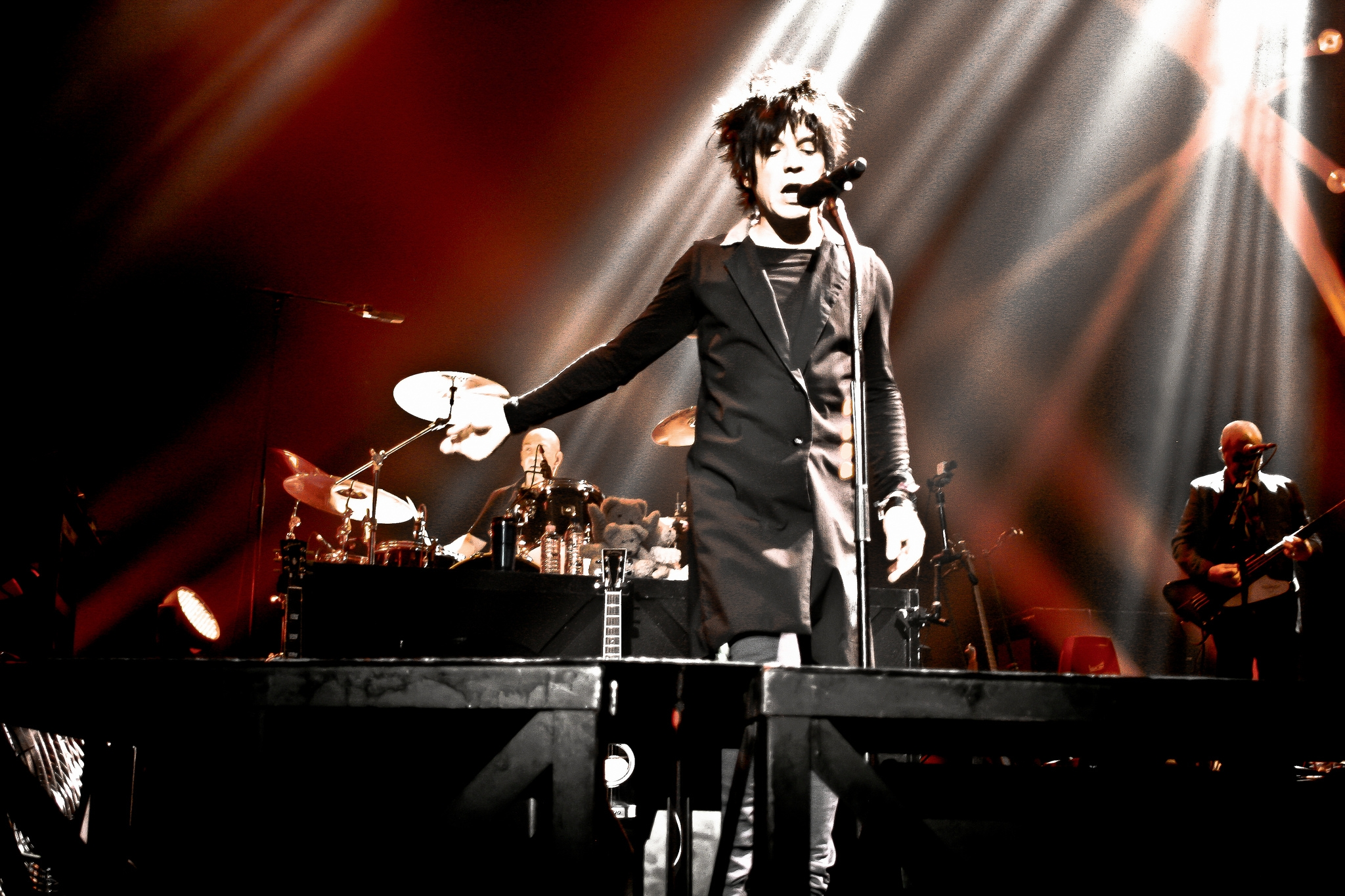 Indochine, at Meteor Tour.